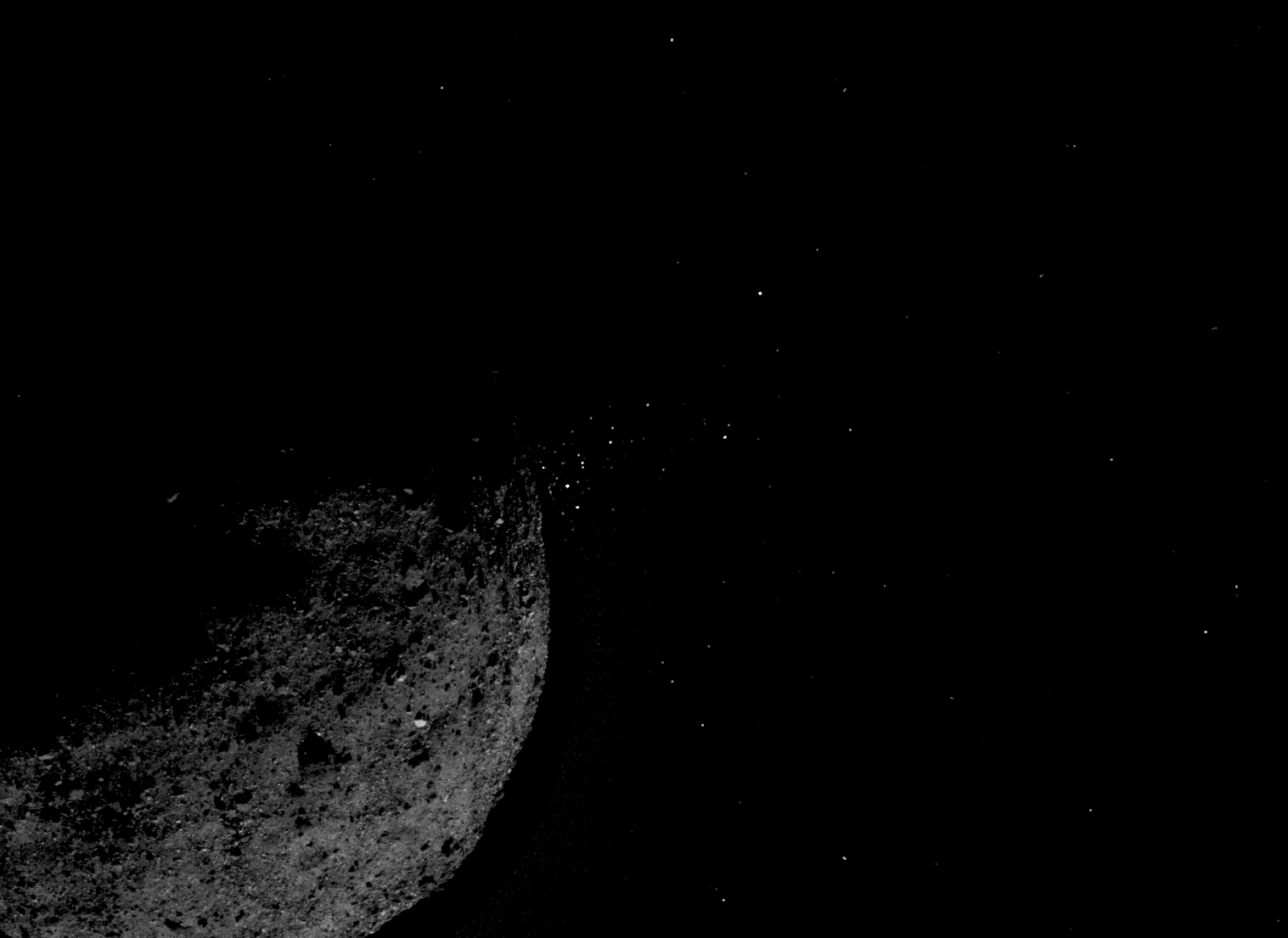 This view of asteroid Bennu ejecting particles from its surface on January 19 was created by combining two images taken by the NavCam 1 imager onboard NASA’s OSIRIS-REx spacecraft: a short exposure image (1.4 ms), which shows the asteroid clearly, and a long exposure image (5 sec), which shows the particles clearly. Other image processing techniques were also applied, such as cropping and adjusting the brightness and contrast of each layer.